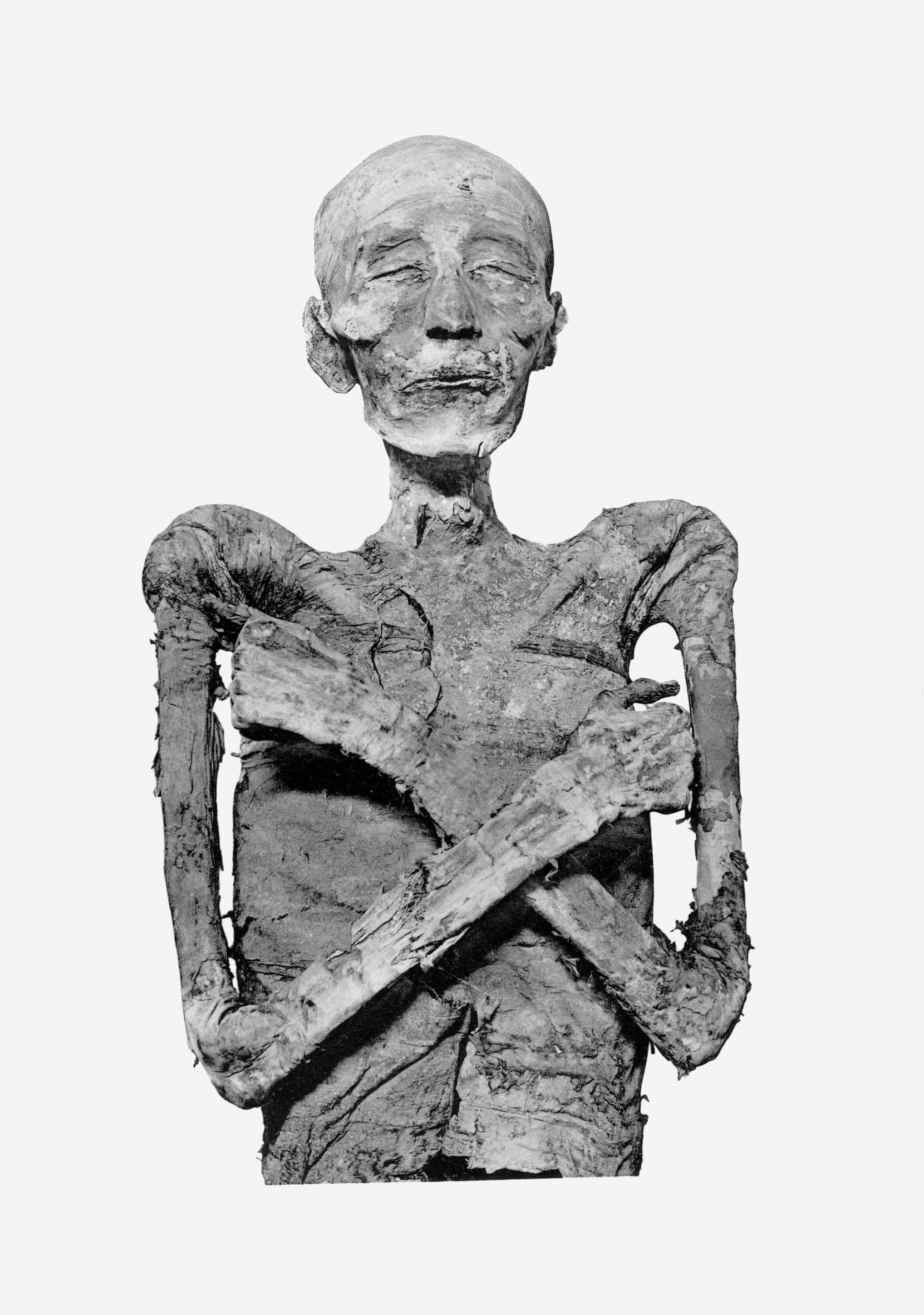 Mummy of pharaoh Merneptah.